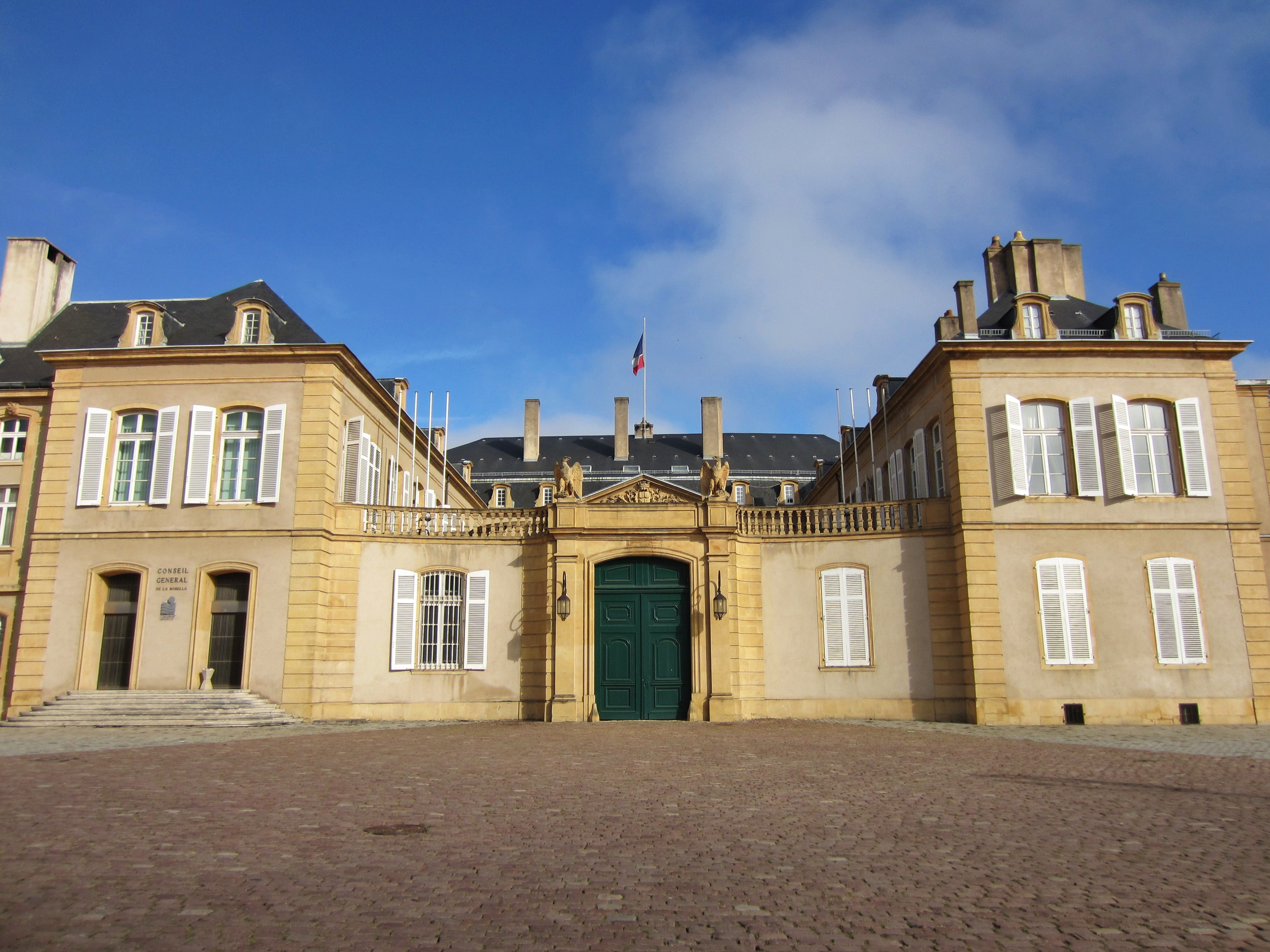 Description hotel departement Metz Date23 November 2011Sourcemon appareil photoAuthorAimelaimePermission (Reusing this file) hotel departement Metz